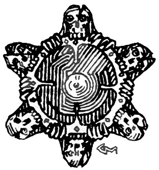 Illustration by Gerhard Munthe, saga ornamentic